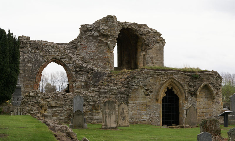 Kinloss Abbey (Scotland) - south transept and sacristy